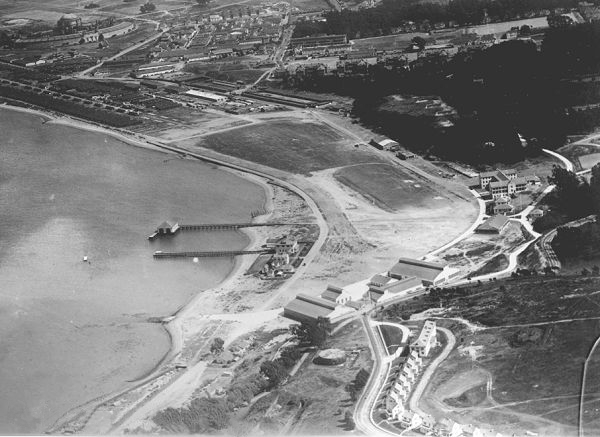 Aerial View on Crissy Field, US Army Air Field, part of Presidio of San Francisco 1921–1923, row of white houses in the foreground are pilot quarters, then hangars and airfield with barracks, building at the bay is the coast guard station of 1890.